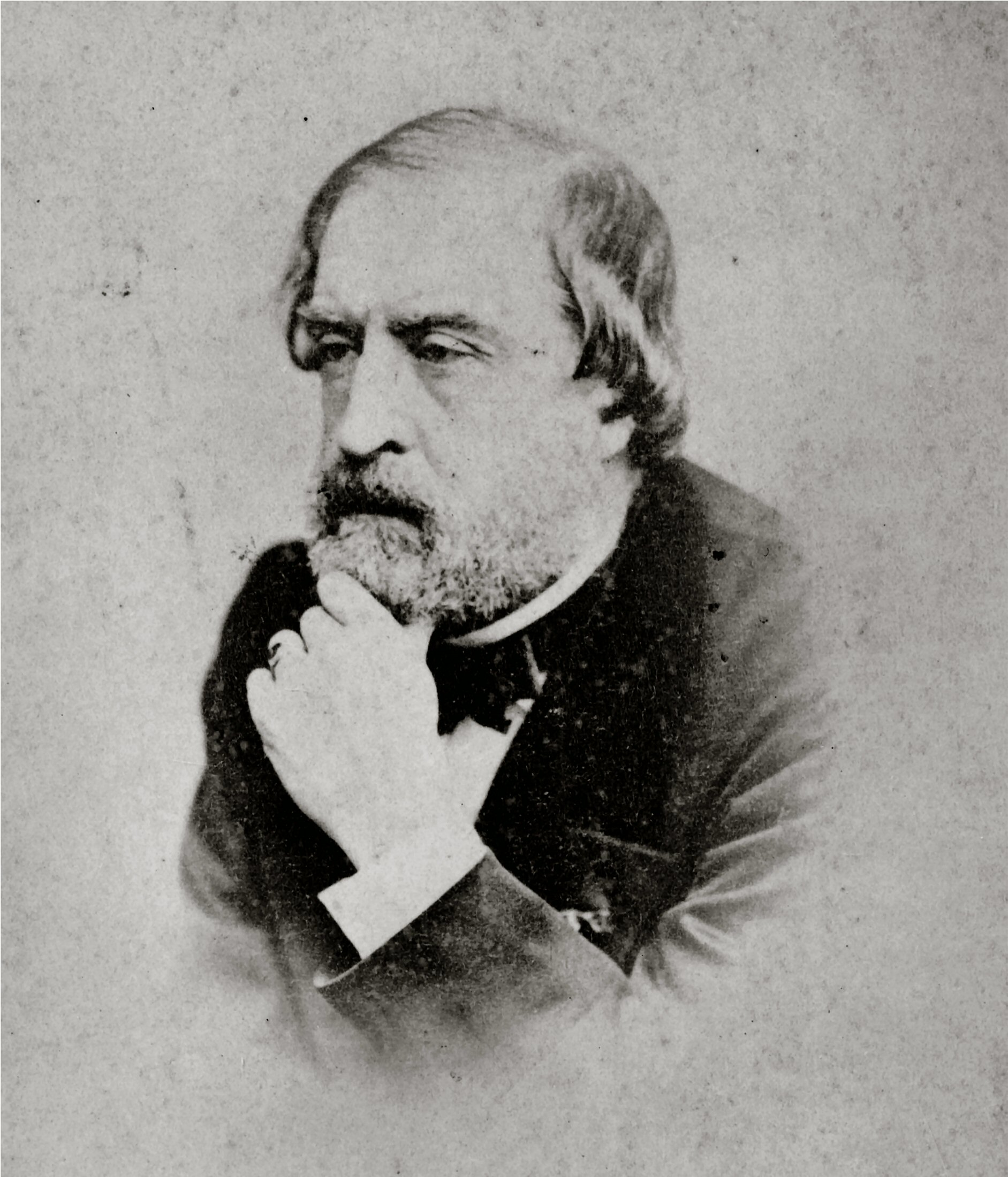 Ambroise Thomas (August 5, 1811 - February 12, 1896) was a French opera composer. Photograph shows Ambroise Thomas, French composer, head-and-shoulders portrait, chin resting on left hand, facing left.